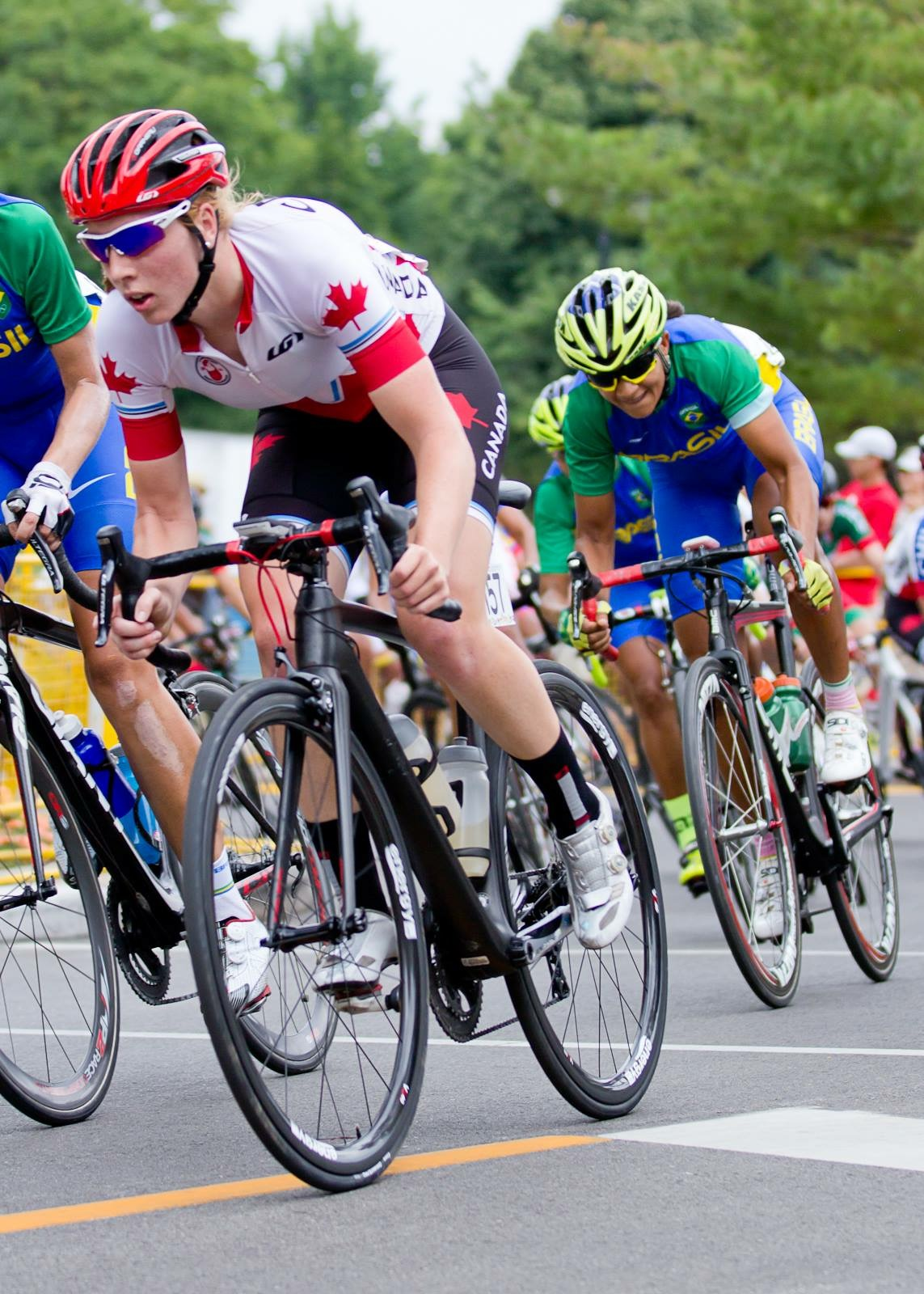 cyclist